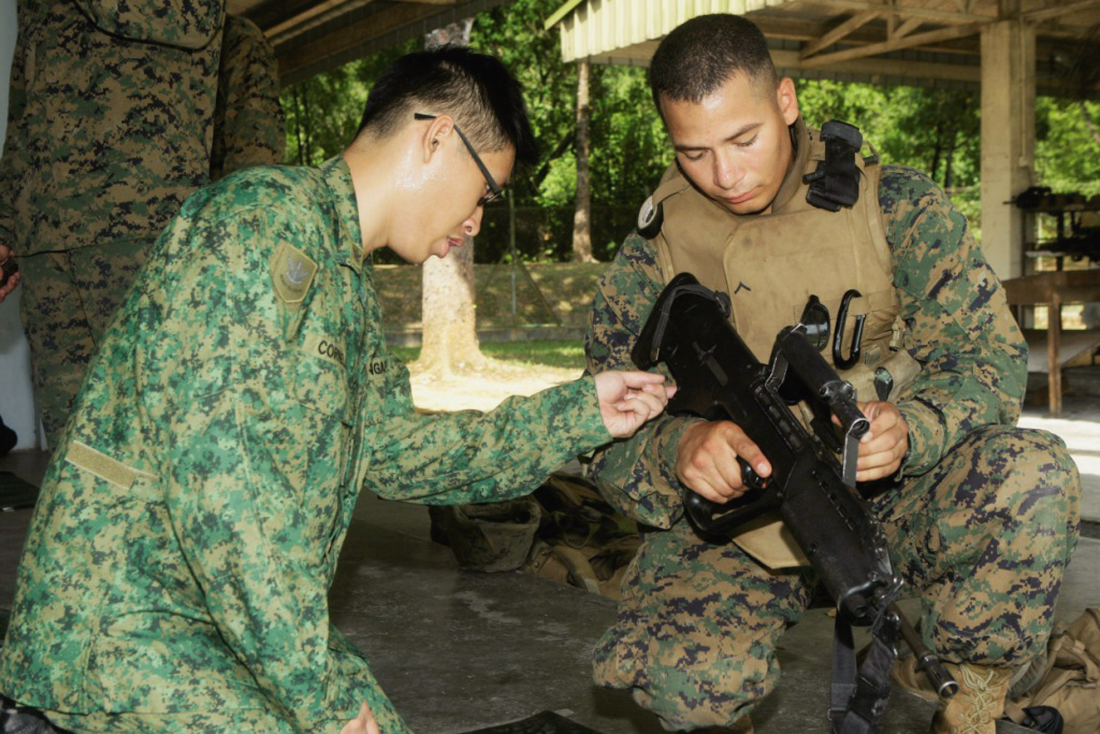 090610-M-0784W-026 POYANG RANGE, Singapore (June 10, 2009) Singapore Guardsmen with 1st Guards Battalion, 7th Infantry Brigade and U.S. Marines with 1st Battalion, 24th Marine Regiment, examine a SAR 21 prior to participating in a joint small-arms live-fire exercise during Cooperation Afloat Readiness And Training (CARAT), a series of bilateral exercises held annually in Southeast Asia to strengthen relationships and enhance the operational readiness of participating forces. (U.S. Marine Corps photo by Lance Cpl. Stuart C. Wegenka/Released)